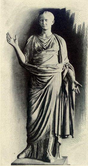 A statue of Octavia minor, sister of Gaius Octavius in the Lateran Museum (Rome).